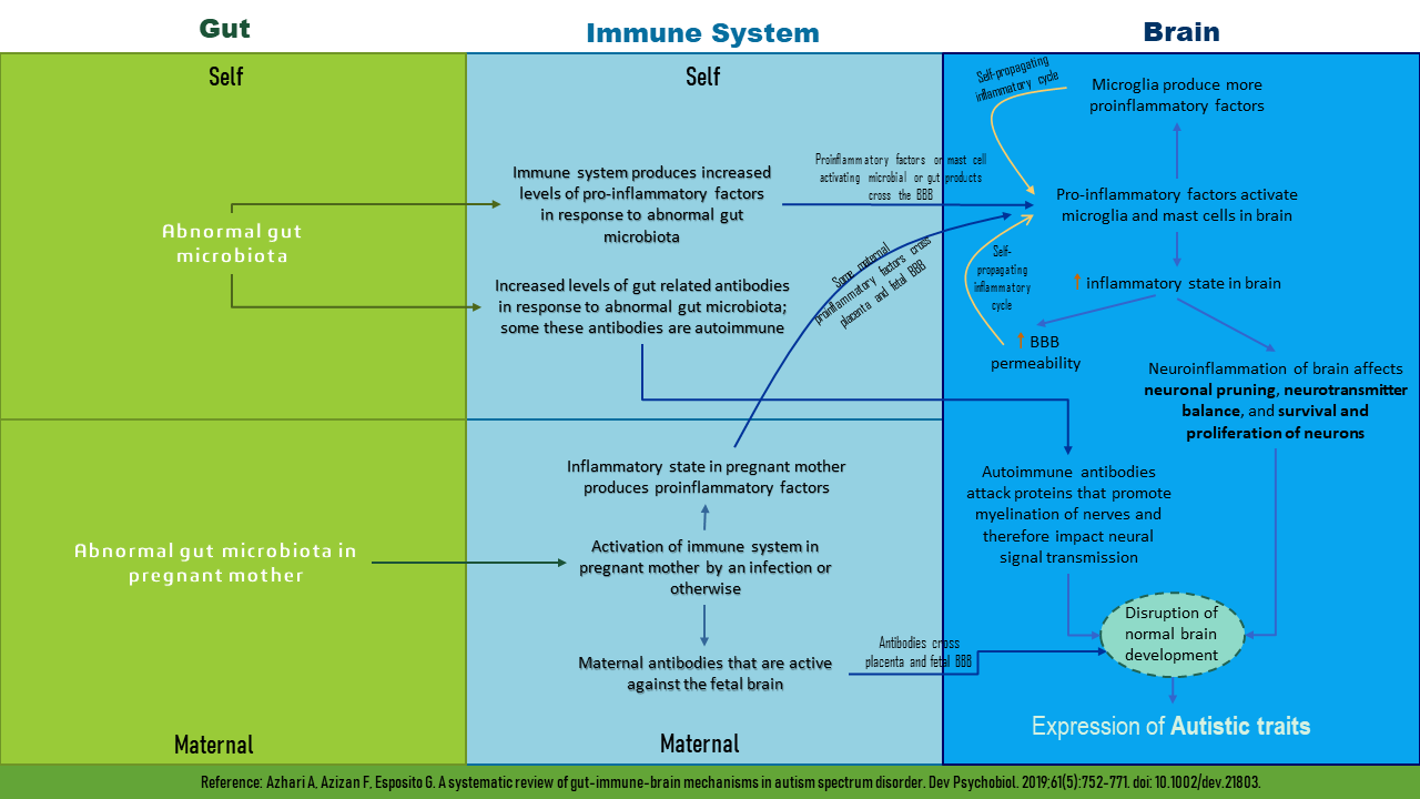 Role of Gut-Immune-Brain Axis in pathophysiology of Autism